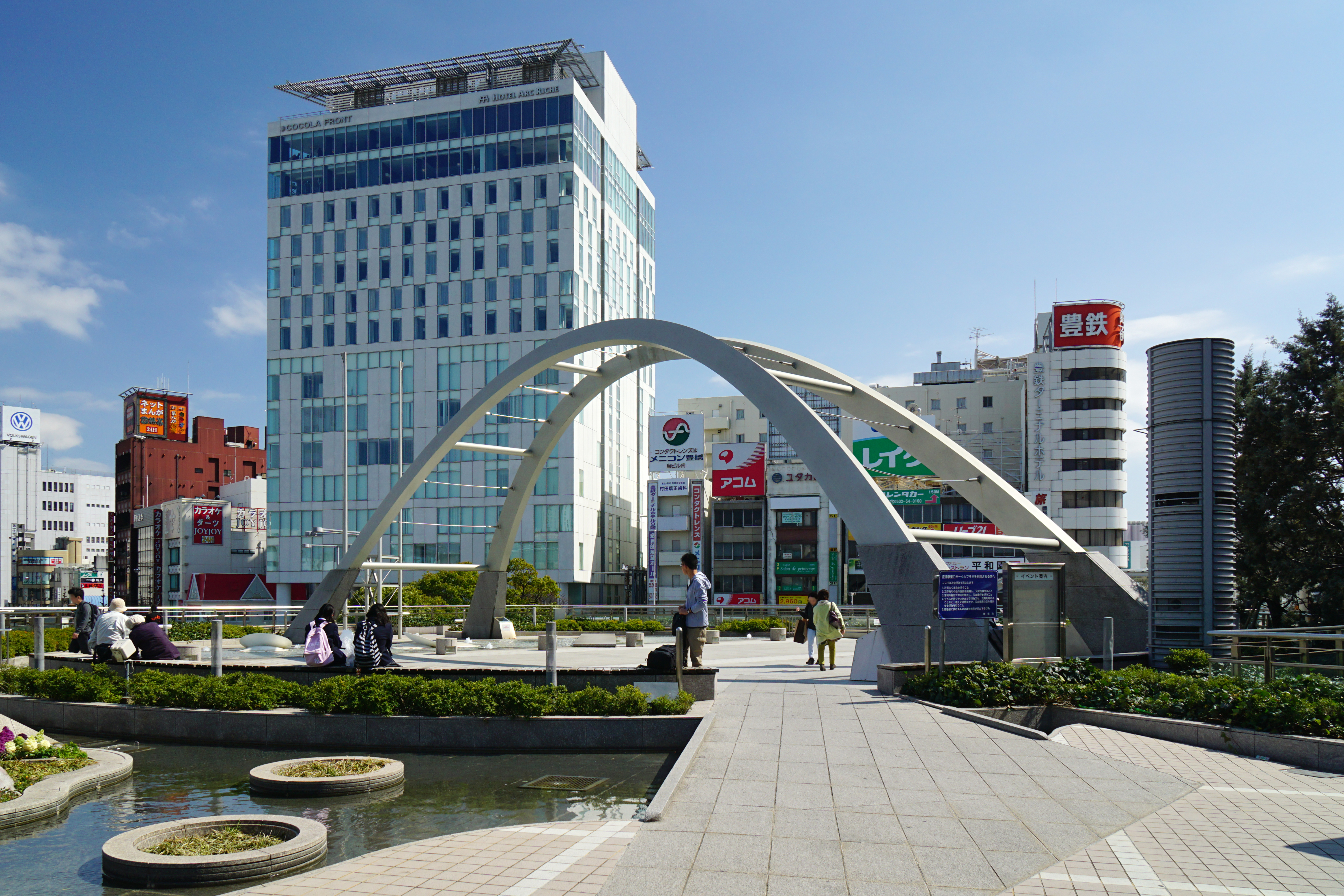 Toyohashi Station in Toyohashi, Aichi prefecture, Japan